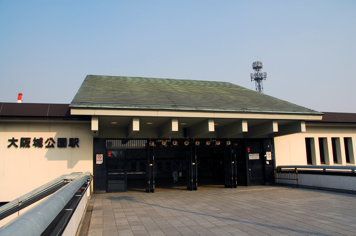 Ōsakajōkōen Station